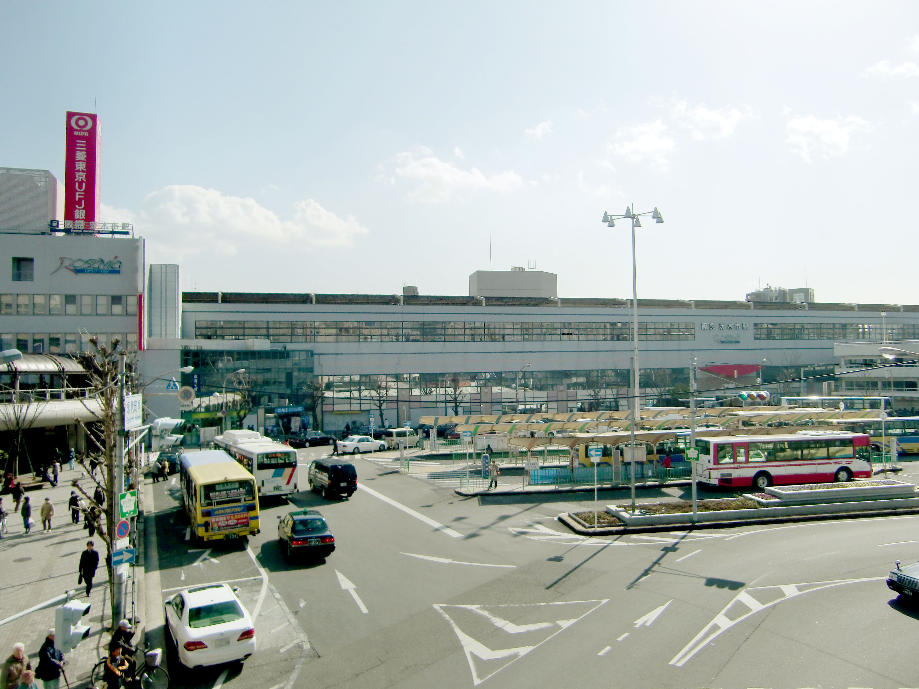 Hankyu Railway Ibaraki-shi Station,1-5 eidaicho Ibaraki-City Osaka Japan.